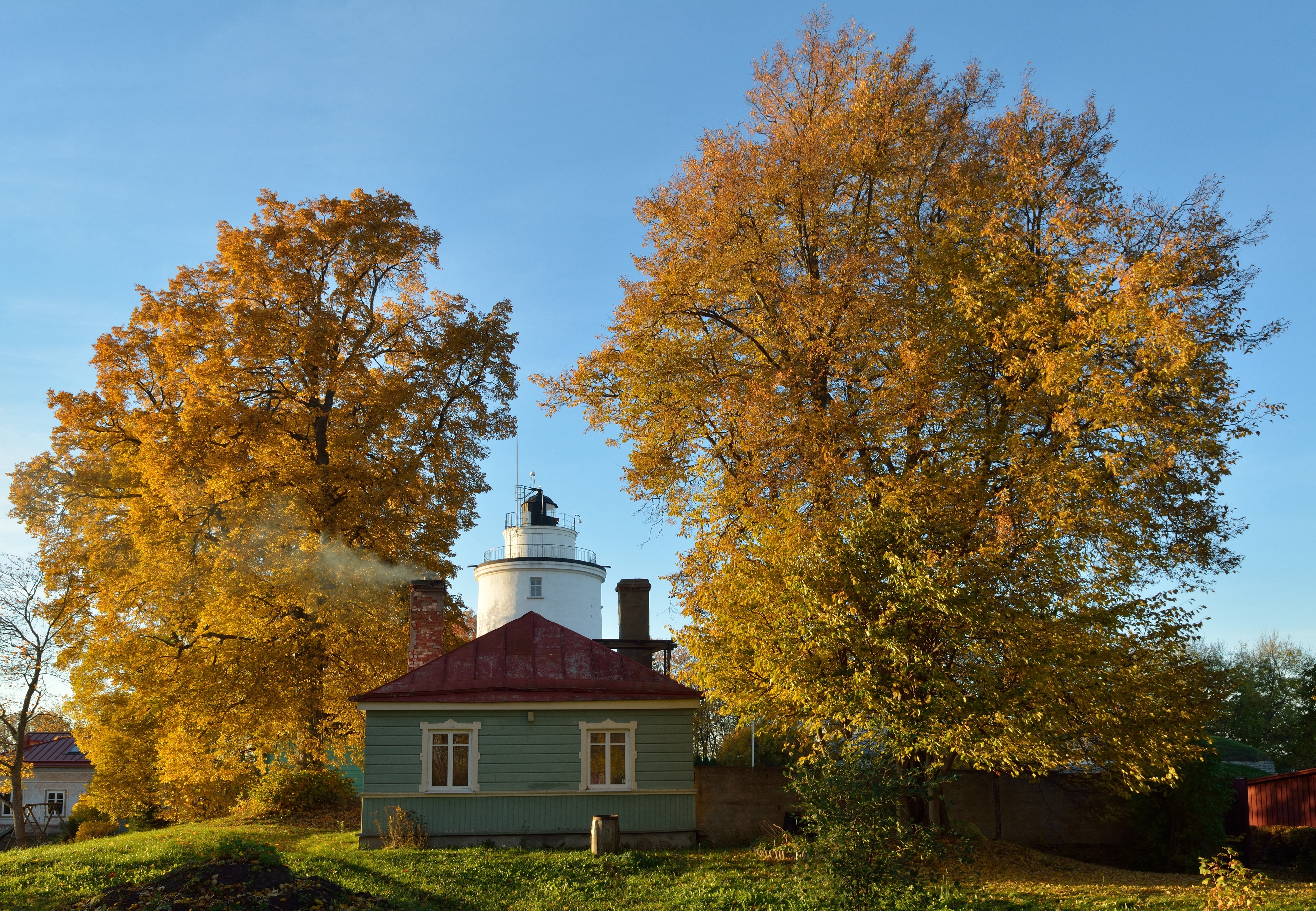 Sauna of the Suurupi rear lighthouse, built in 1896.